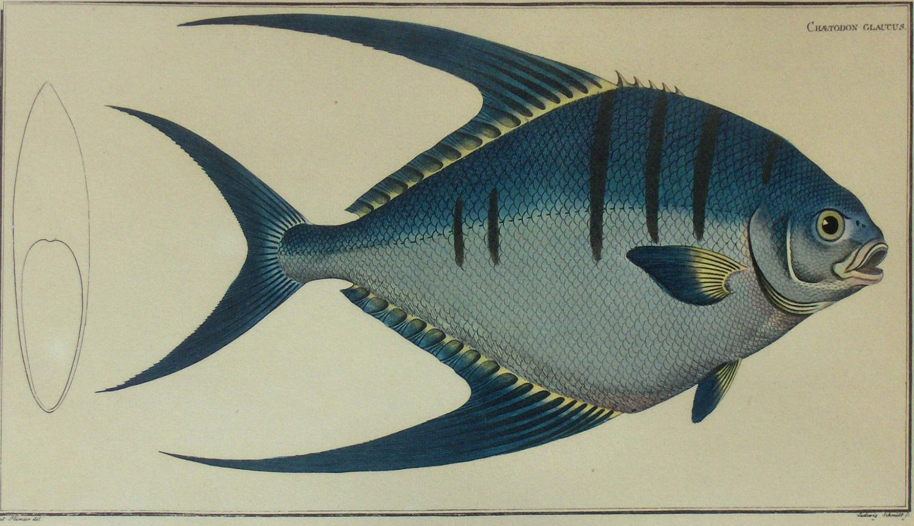 "Chaetodon glaucus" Bloch (1785-97) : synonym of the accepted name Trachinotus goodei Allgemeine Naturgeschichte der Fische. French = Ichtylogie, ou Histoire naturelle : generale et particuliere des poissons